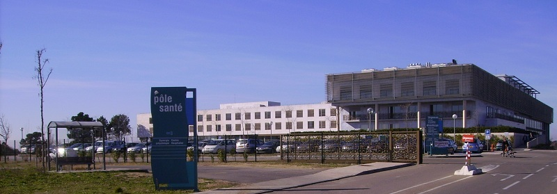 Health Center Carpentras